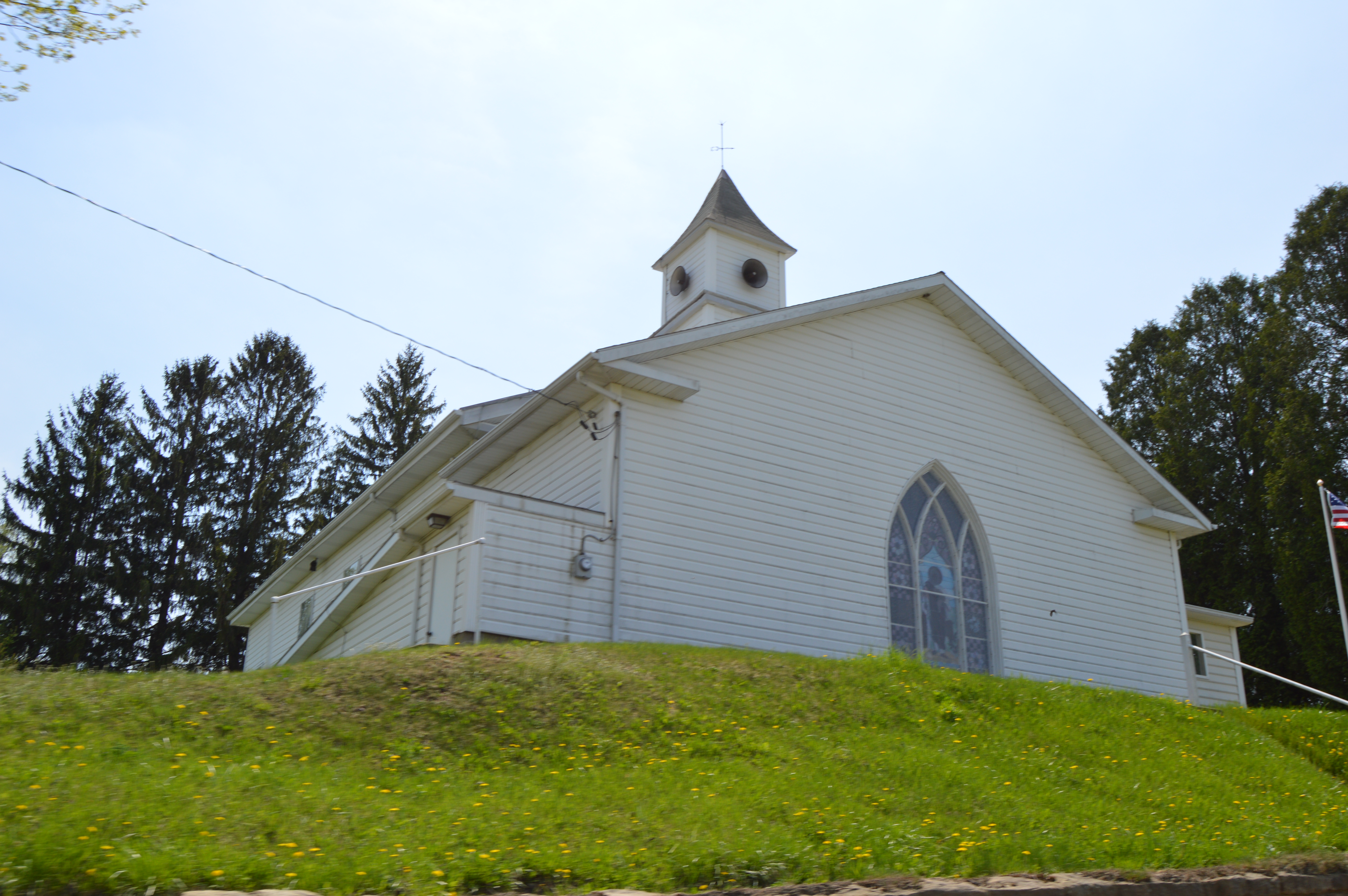 Eastern side and front of Mount Zion Lutheran Church, located at 27552 Pennsylvania Route 954 at Trade City in western North Mahoning Township, Indiana County, Pennsylvania, United States.